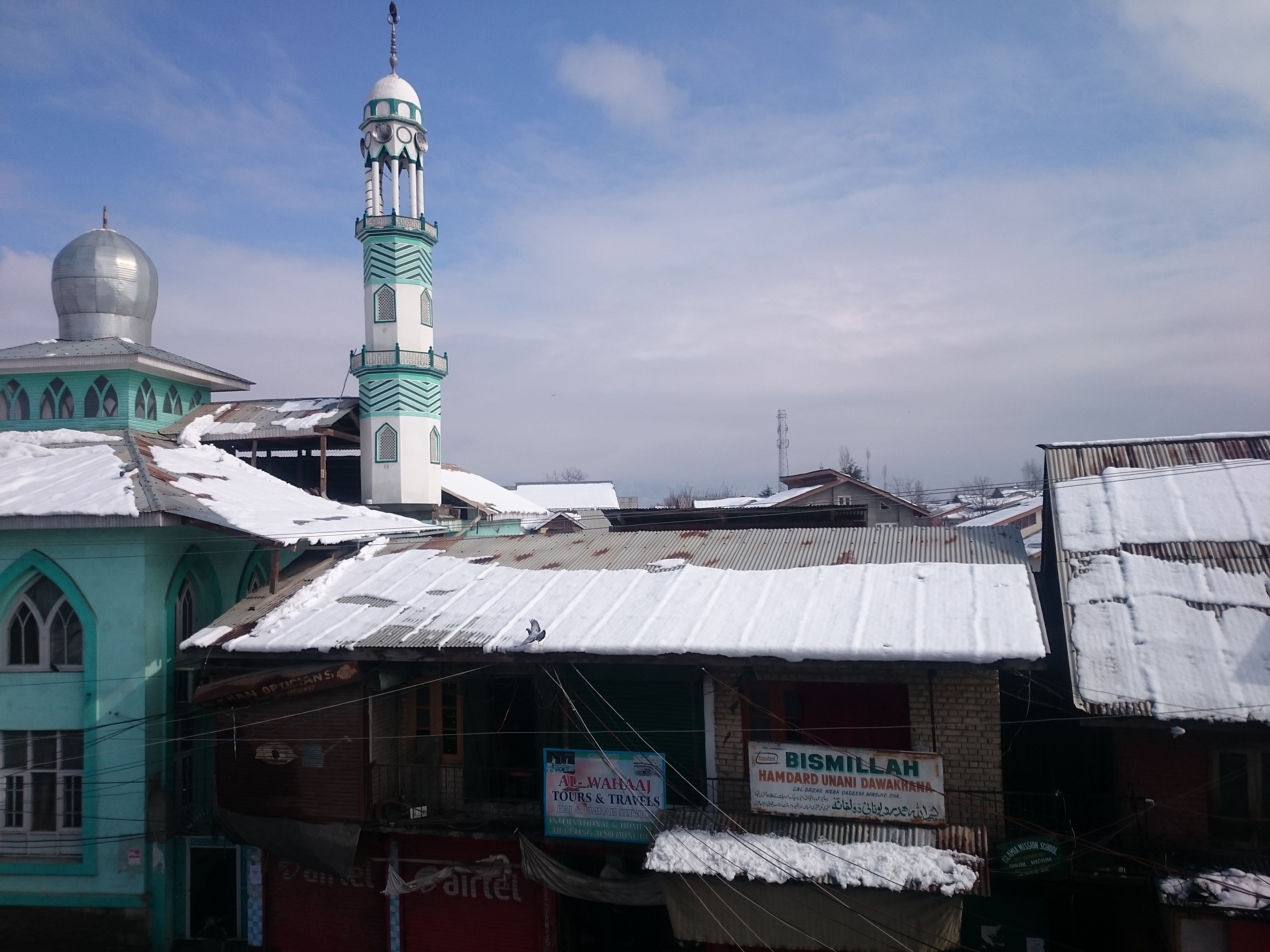 Minarett of Qadeem Masjid at Lal Bazar during Snow.